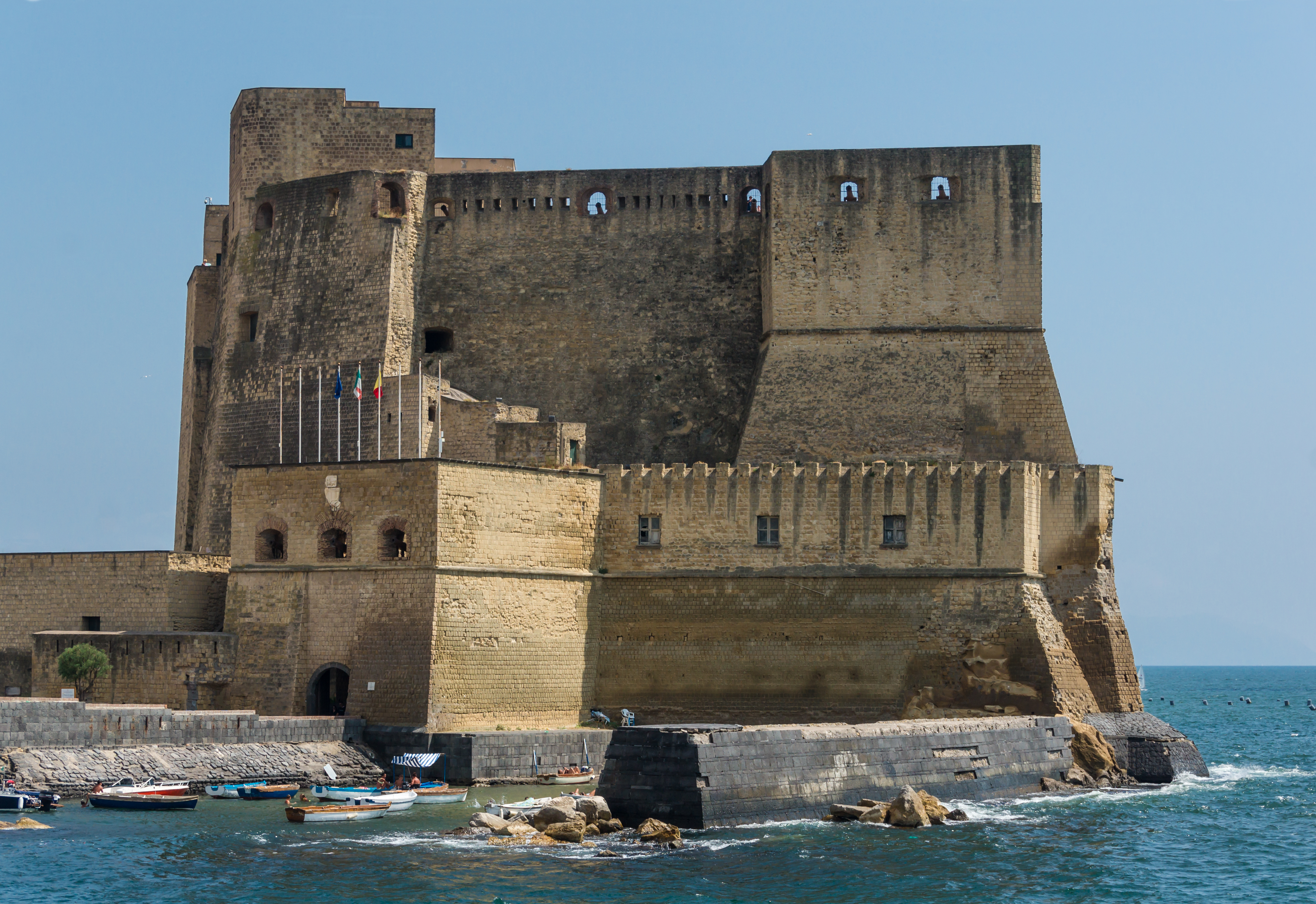 Castel del'Ovo in Naples, Italy.